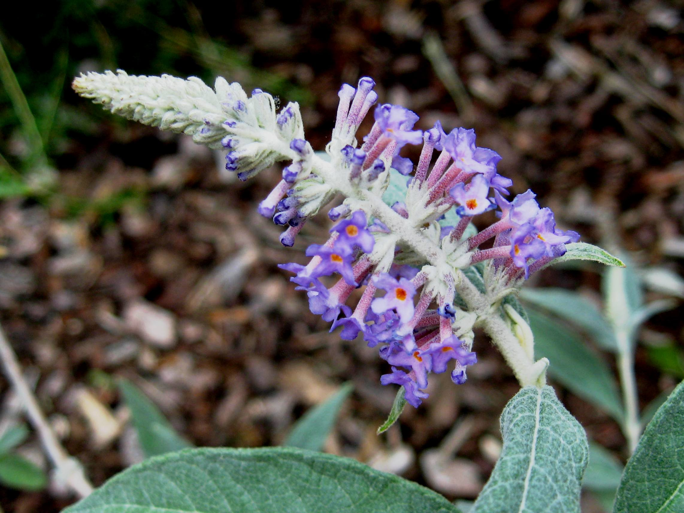 Photo of the inflorescence of Buddleja fallowiana taken at Longstock Park nursery, UK